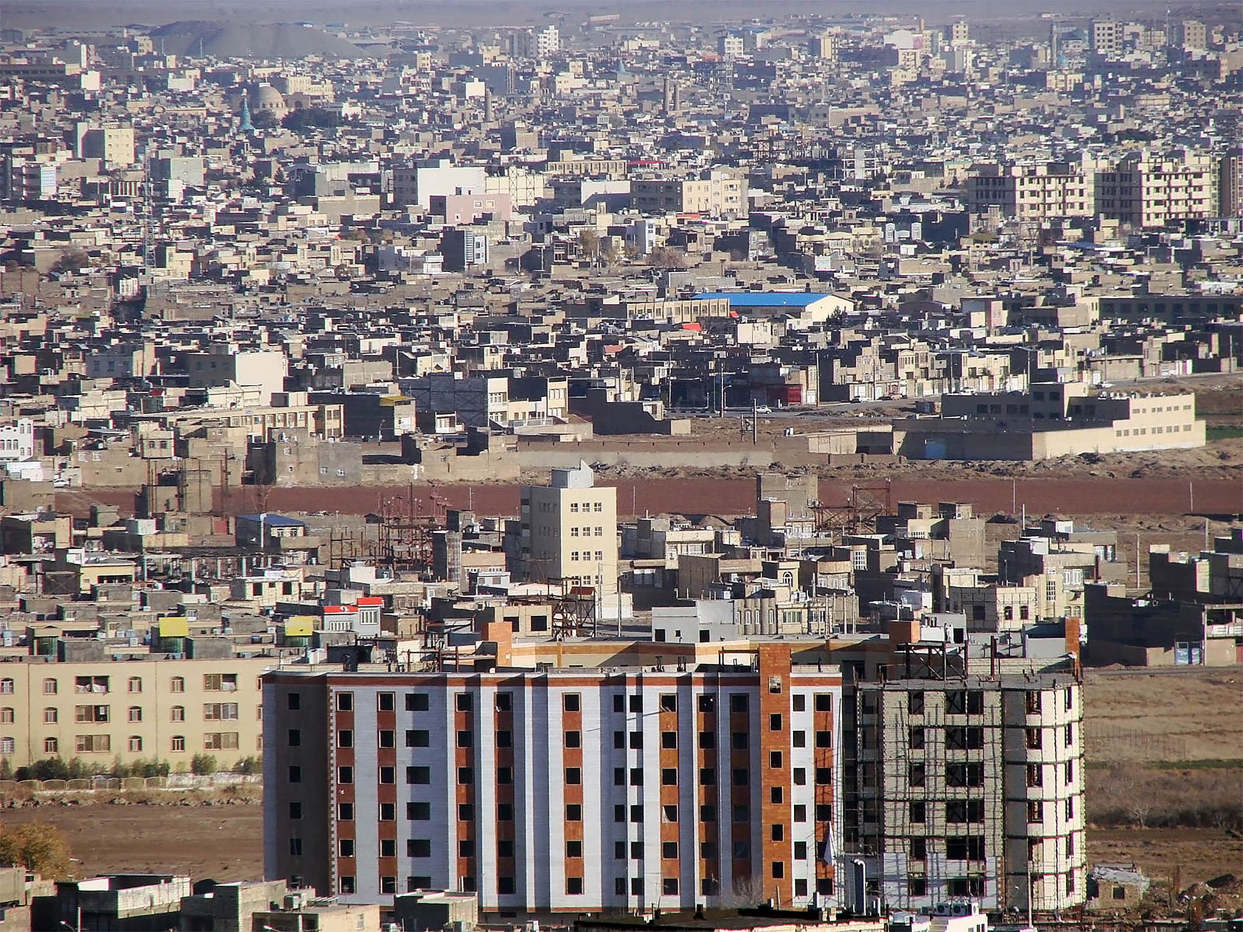 Qom also spelled as Ghom, is the eighth largest city in Iran. It lies 125 kilometres (78 mi) by road southwest of Tehran and is the capital of Qom Province. At the 2011 census its population was 1,074,036 (957,496 at the 2006 census, in 241,827 families), comprising 545,704 men and 528,332 women. It is situated on the banks of the Qom River. Qom is considered holy by Shiʿa Islam, as it is the site of the shrine of Fatema Mæ'sume, sister of Imam `Ali ibn Musa Rida (Persian Imam Reza, 789–816 AD). The city is the largest center for Shiʿa scholarship in the world, and is a significant destination of pilgrimage. Qom is famous for a brittle toffee called “Sohan” (Persian:سوهان), considered a souvenir of the city and sold by 2,000 to 2,500 “Sohan” shops.